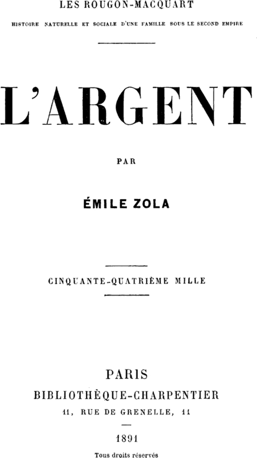 Money (1891) by Émile Zola (1840-1902)